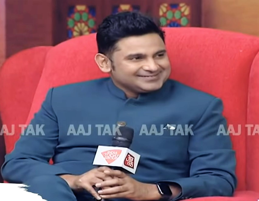 Indian Lyricist Manoj Muntashir interviewed on Aaj Tak Hindi language news channel.